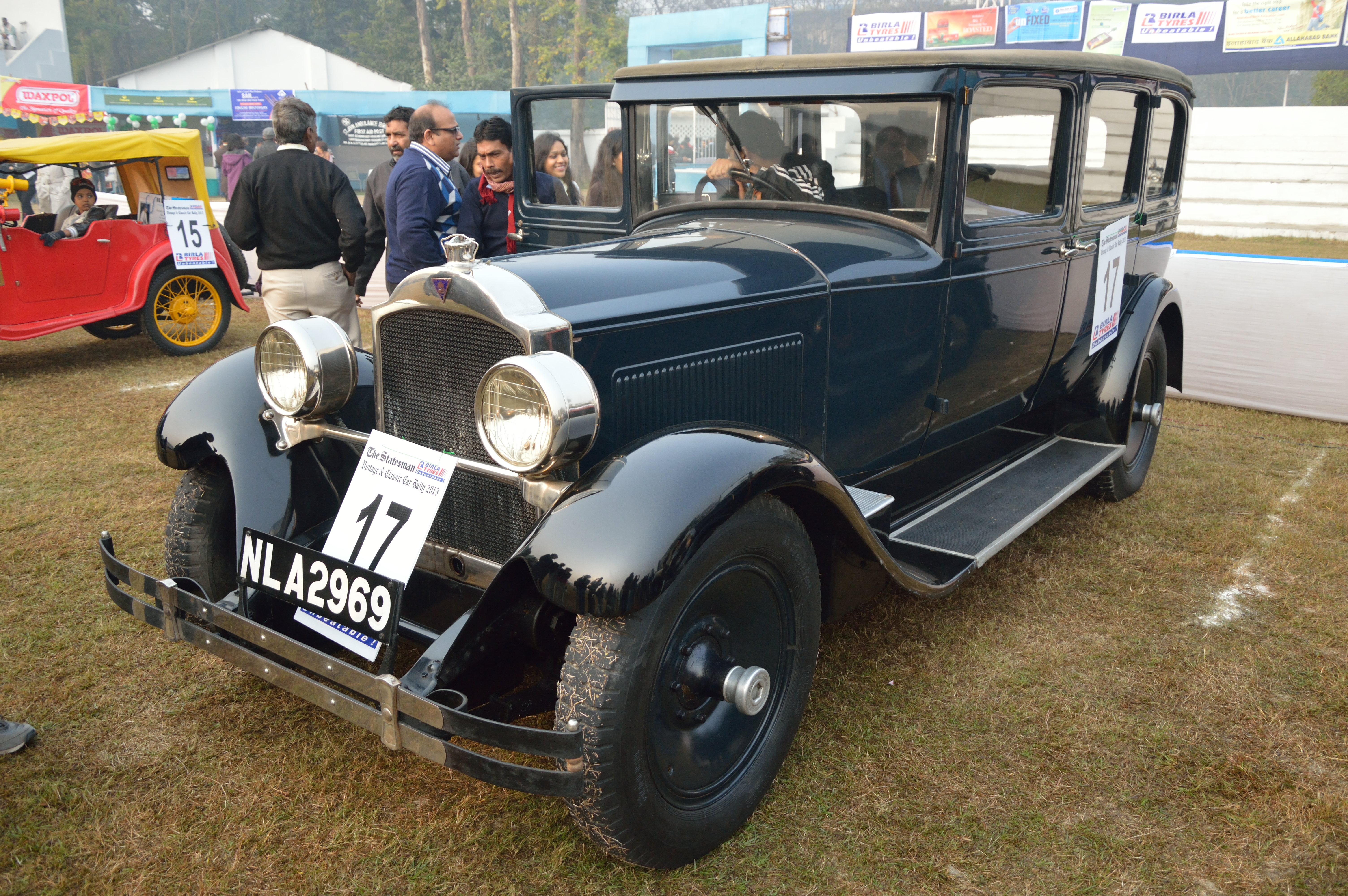 This Morris car was exhibited and ran during ‘The Statesman Vintage & Classic Car Rally 2013’ from the Eastern Command Sports Stadium of Fort William, Kolkata to the same via: Rabindra Sadan, Esplanade, Central avenue, Bhupen Bose avenue, Shaymbazaar five points crossing, APC Roy road, AGC Bose road Park Circus seven points, Gariahat flyover, Gol park, Rabindra Sarover, SP Mukherjee road, Hazra Road, Alipore road and Strand road, the route covers 31.32 km. The rally was held at chilled morning on 13 January 2013 at the ECS Stadium, where 170 entrants were participated with cars and bikes manufactured from 1906 to 1978. This one day festival takes place on the second Sunday of every January in Kolkata since 1968 with full of period costume and cultural period pieces.